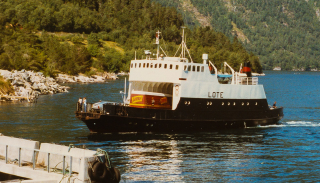 MF Lote at Dragsvik ferryterminal in 1987